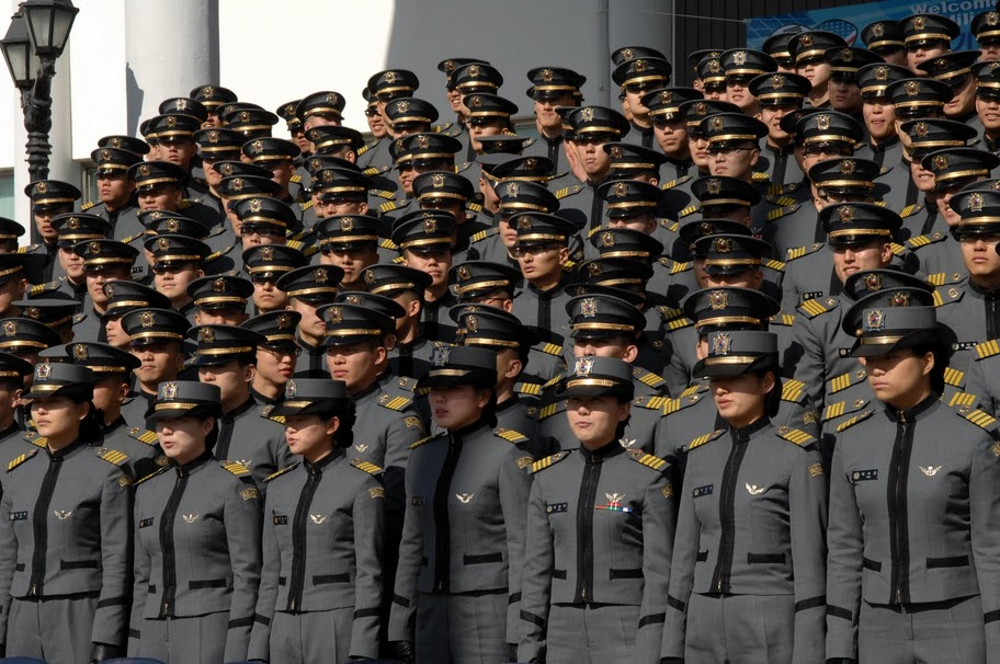 Photo by SSG Nicholas Salcido